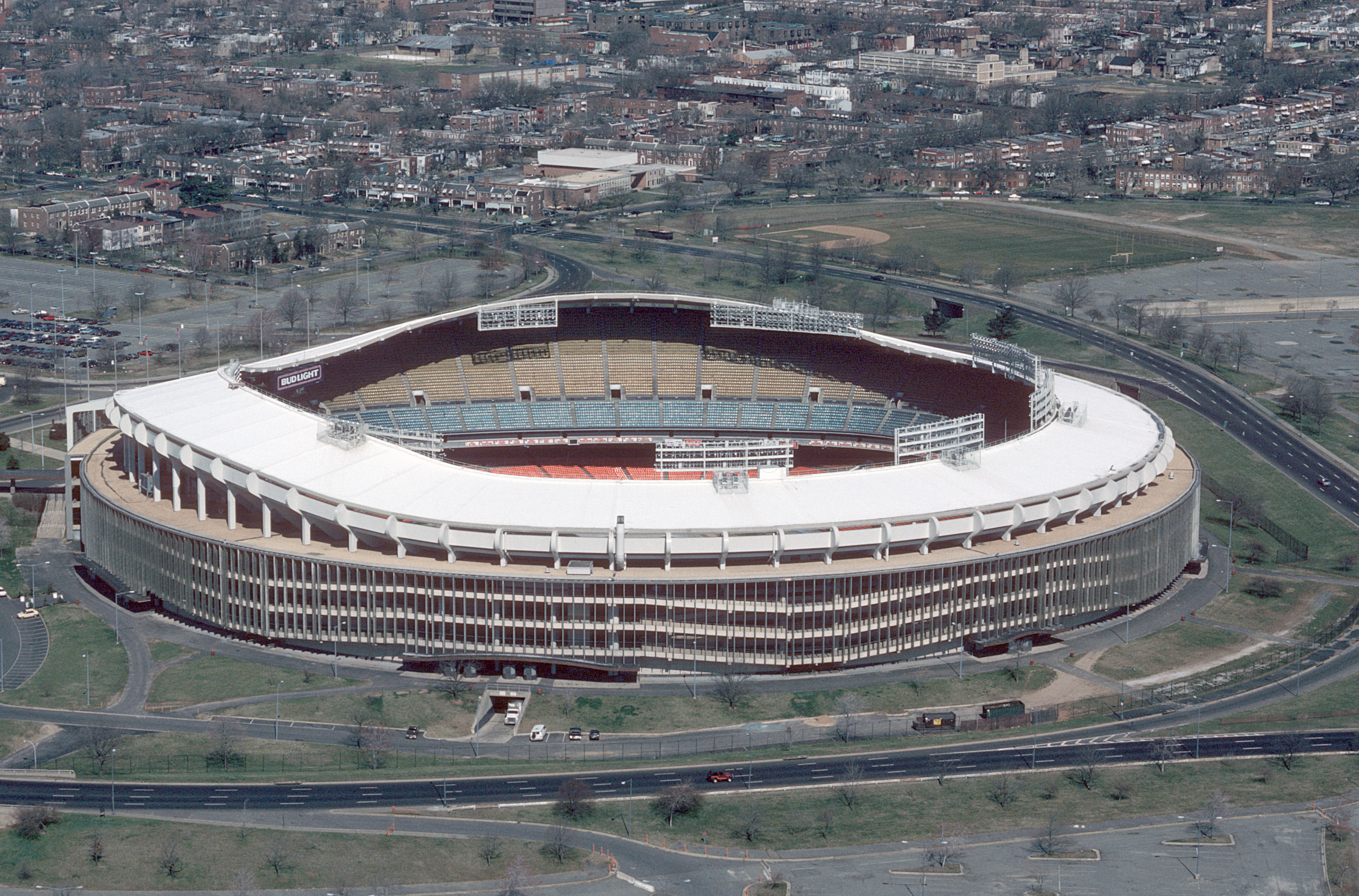 An aerial view of Robert F. Kennedy Memorial Stadium. Location: WASHINGTON, DISTRICT OF COLUMBIA (DC) UNITED STATES OF AMERICA (USA)